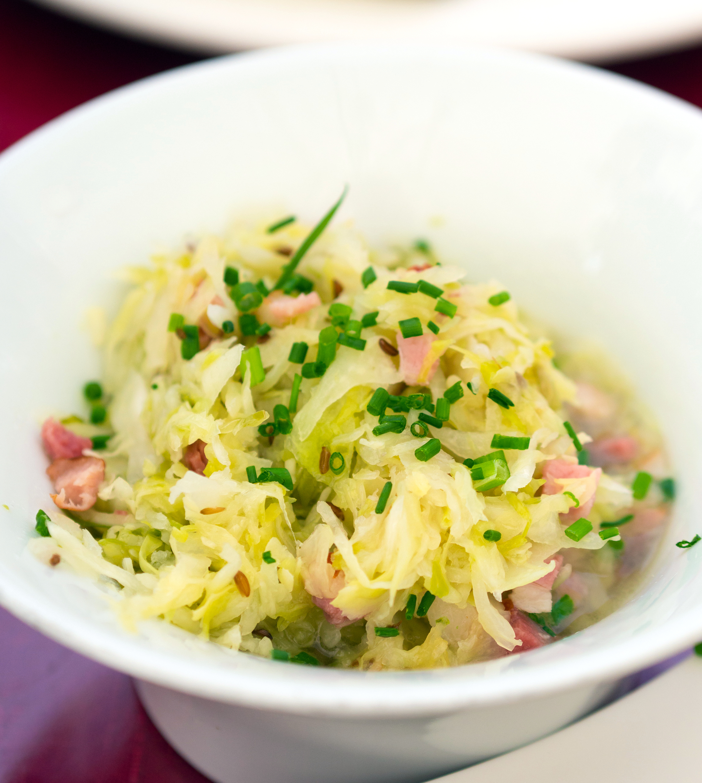 A warm salad of white cabbage and "Tiroler Speck" (Tyrolean cured ham) in Sölden, Tyrol.